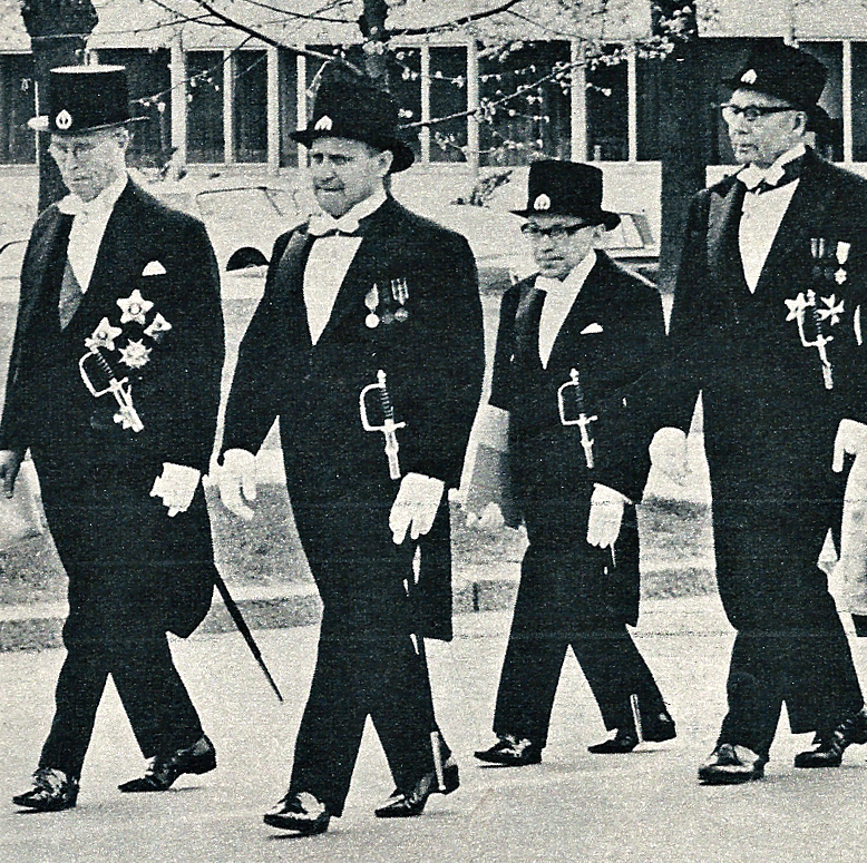 Yhteiskunnallinen korkeakoulu (now University of Tampere) doctor promotion in 1965. From left: former Prime Minister Rainer von Fieandt, writer Väinö Linna, alcohol researcher Touko Markkanen & professor Eino-Saari.